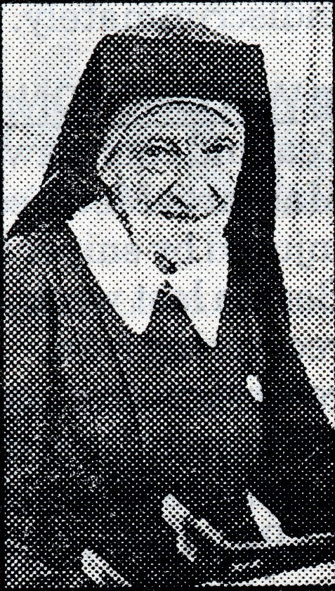 Sister Mary Ursula Grachan